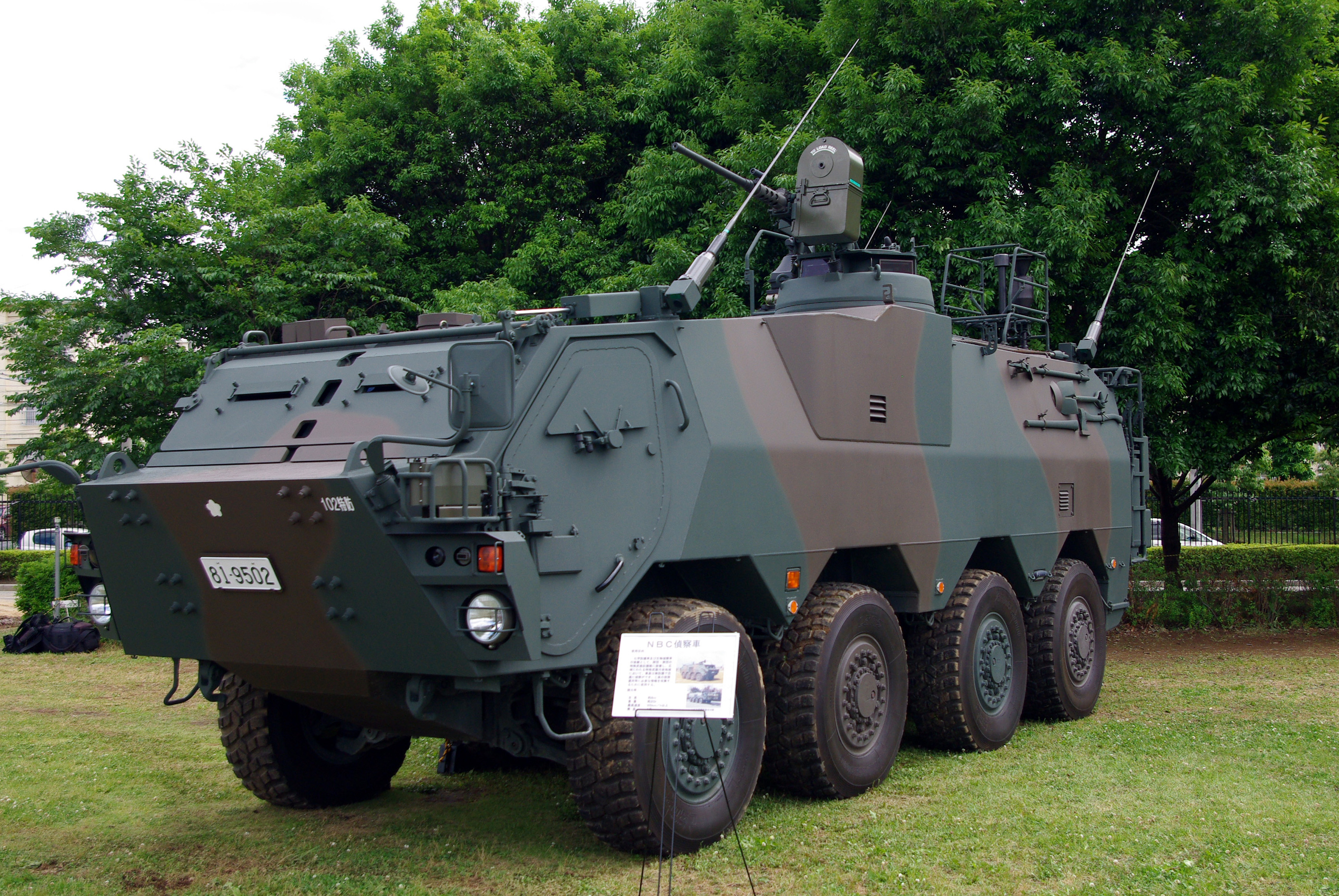 JGSDF NBC reconnaissance vehicle,Central Nuclear Biological Chemical Weapon Defense Unit.Taken by Los688,in Camp Omiya,Japan,at 10-Jun-2012.PD-self 陸上自衛隊 NBC偵察車、中央特殊武器防護隊第102特殊武器防護隊。2012年06月10日、大宮駐屯地で撮影。